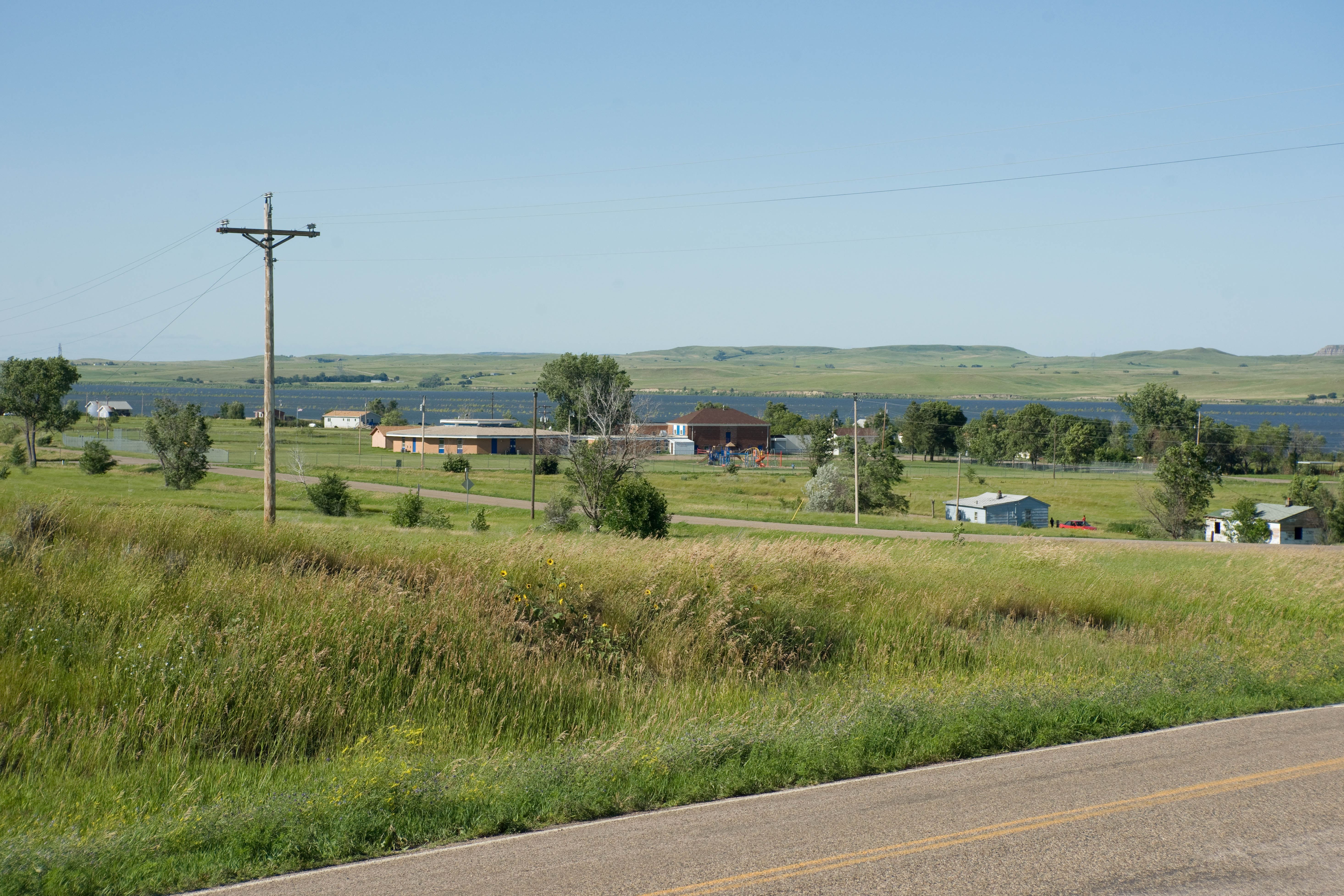 From